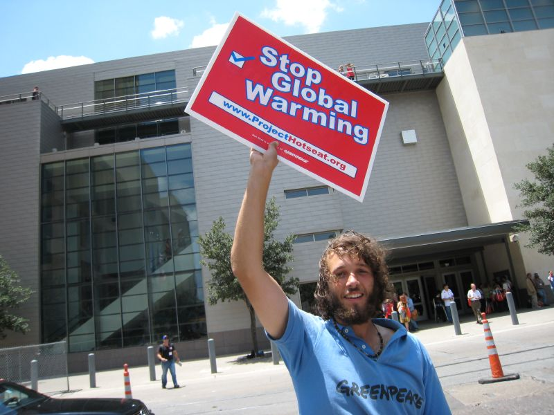 Stop Global Warming :: Green Peace